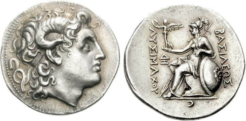 KINGS of THRACE. Lysimachos. 305-281 BC. AR Tetradrachm (16.97 g, 1h). Lampsakos mint. Struck circa 297-281 BC. Diademed head of the deified Alexander right, with horn of Ammon / Athena Nikephoros seated left, spear behind; ΔΞ monogram to inner left, crescent in exergue.